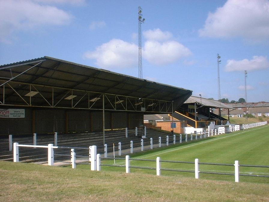 Photograph of the Sir Tom Cowie Millfield - Home of Crook Town AFC